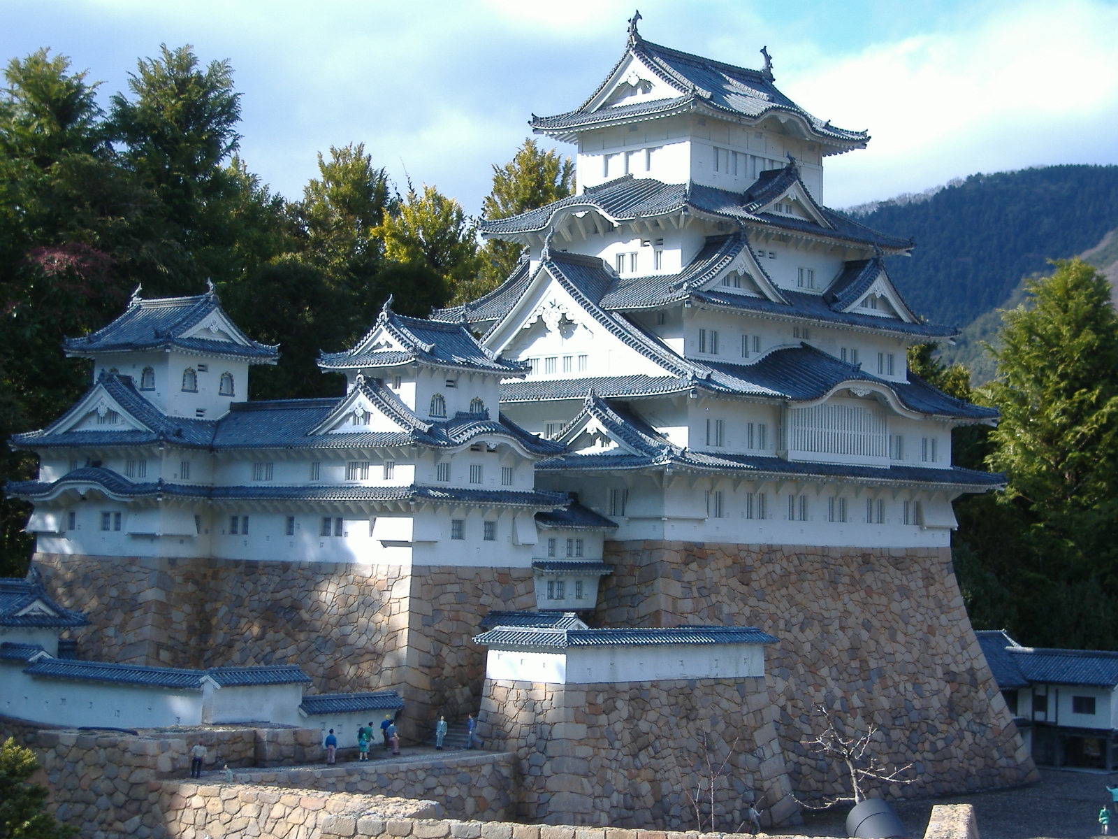 The 1/25 scale miniature Himeji Castle in Tobu World Square(Tochigi pref, Japan).